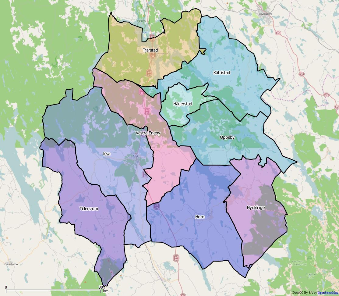 Distriktsindelningen i Kinda kommun World file: 96.40874086378907748 0 0 -96.40874086378907748 1697288.89164725481532514 8013973.49863668251782656